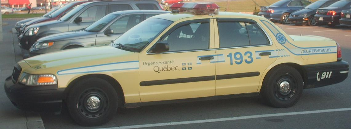 1998-present Ford Crown Victoria photographed in Montreal, Quebec, Canada.